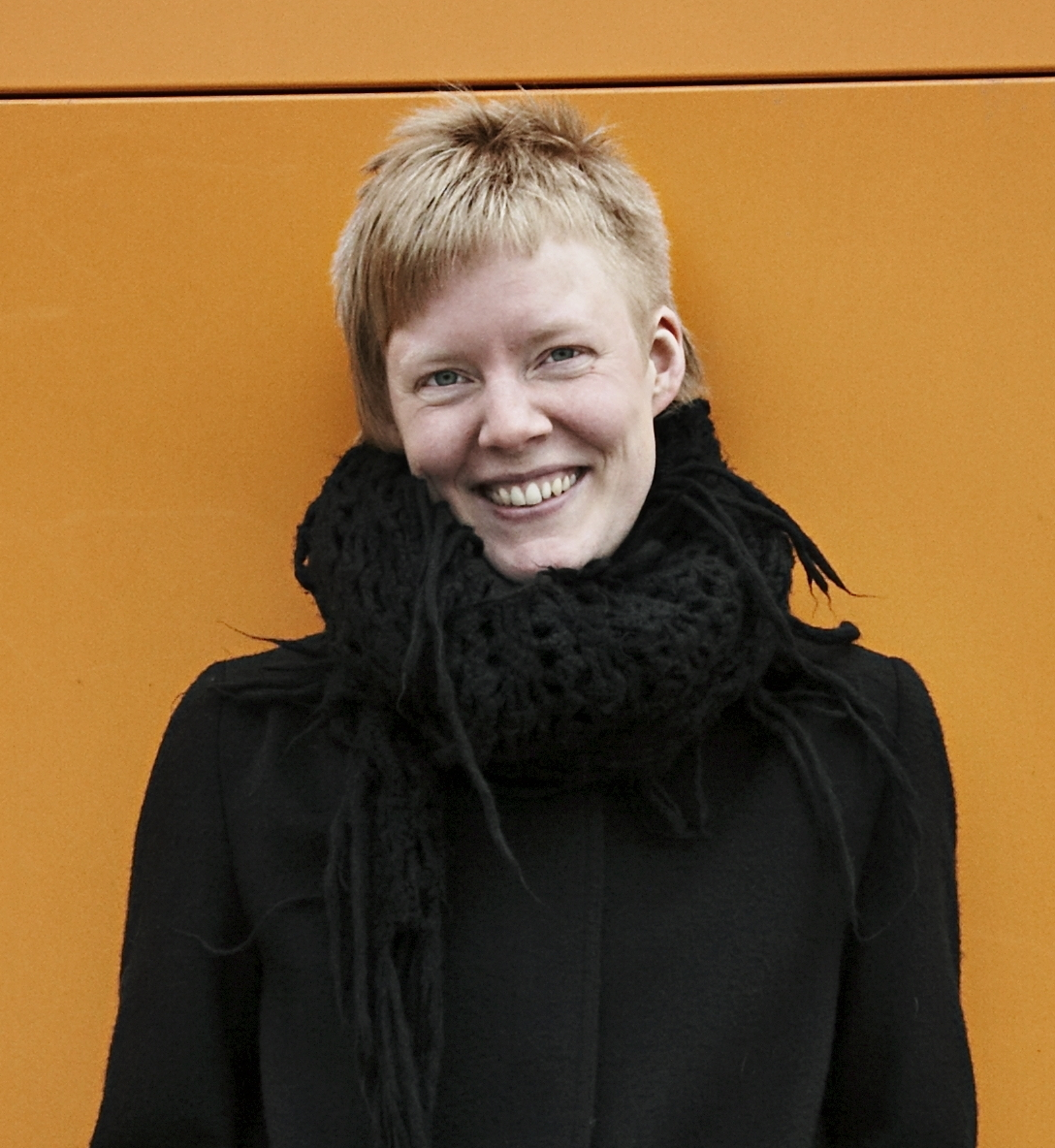 Helena Österlund, Swedish author.